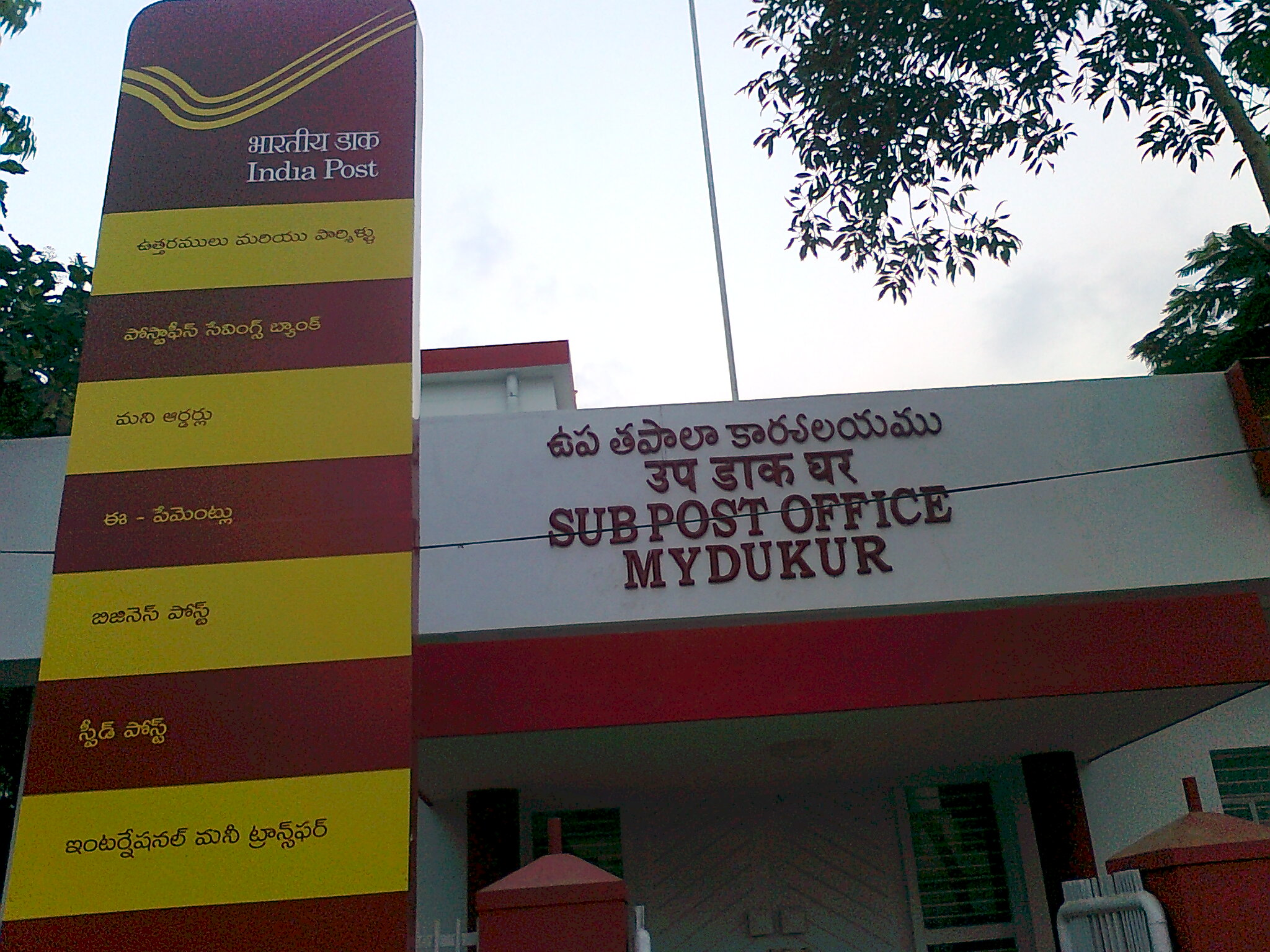 my own work